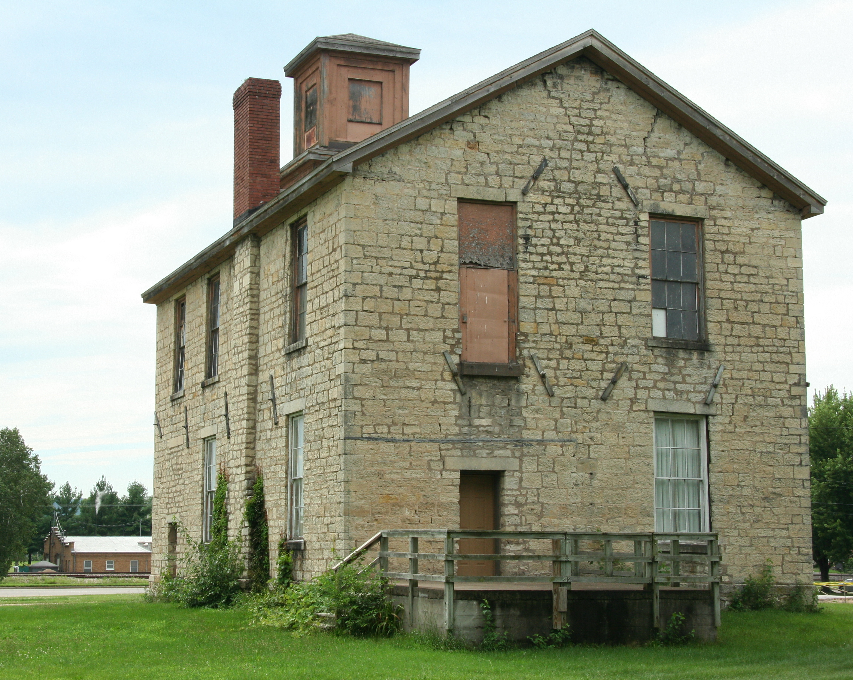 The historic Old Rock School as seen from the east near U.S. Route 18 in Prairie du Chien, Wisconsin, United States